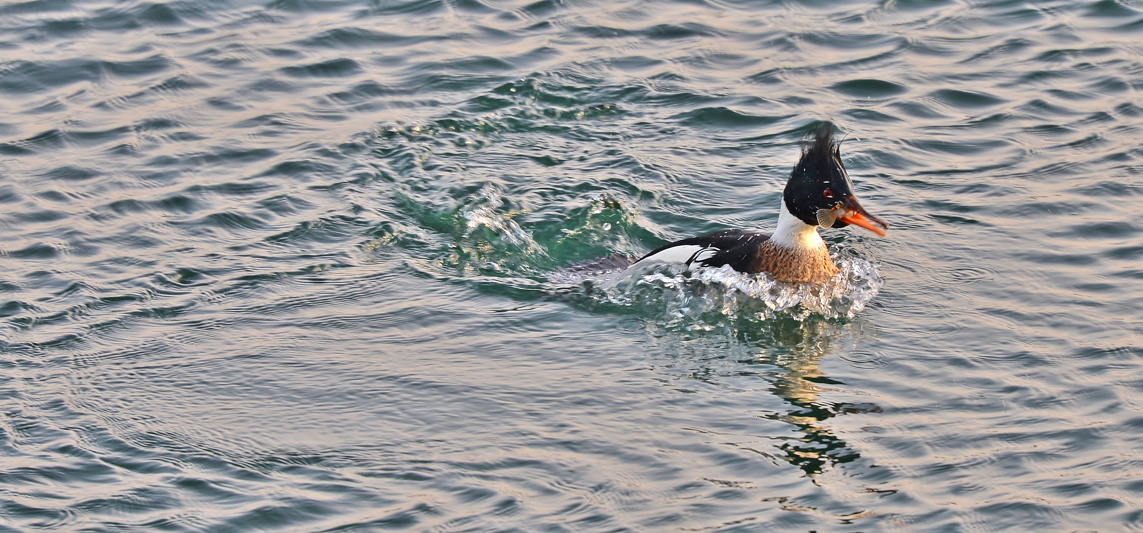 Young male red-breasted merganser (Mergus serrator) fith the cought fish on the Lake Ontario, Toronto